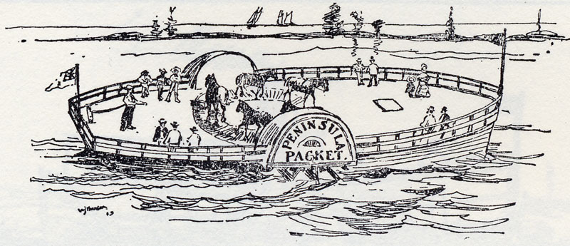 The "second" ferry horse boat in Toronto, Canada. The Peninsula Packet, most commonly known as "the horse boat", ferried passengers between Toronto and the "Island" (until 1857-8, still a peninsula). The ferry originally worked with two horses (see image). After about two years in operation, an alteration was made to the boat (becoming the so-called "second" ferry) so that 5 horses were used, and they walked on a circular track on the deck, exactly as horses do when employed in working a threshing machine. The vessel was taken off the route in 1850.